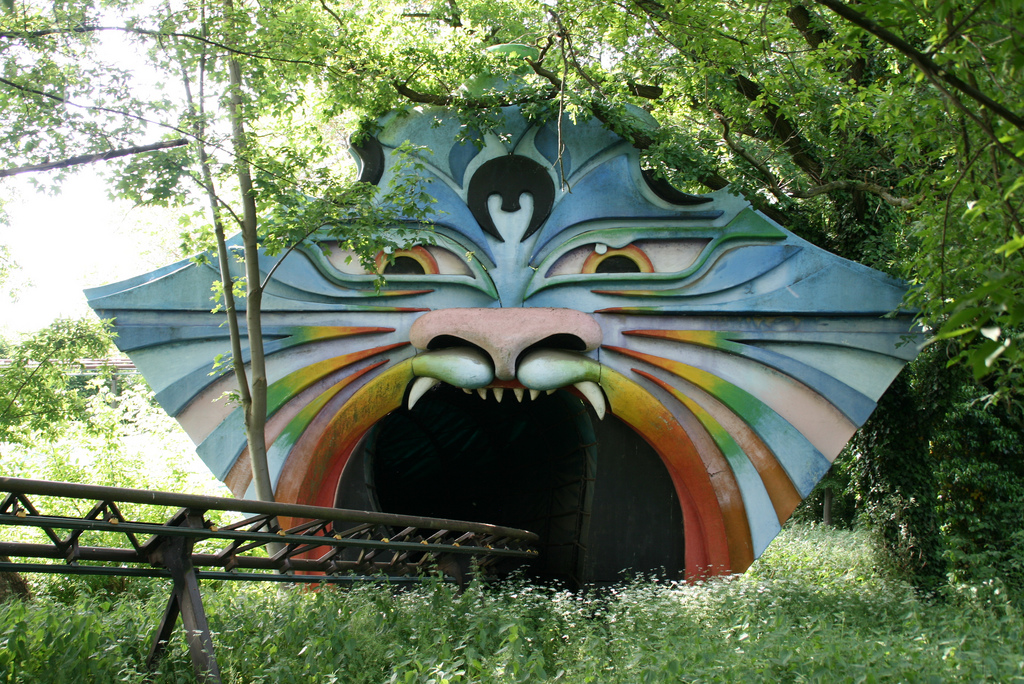 Opening to Roller Coaster in Spreepark